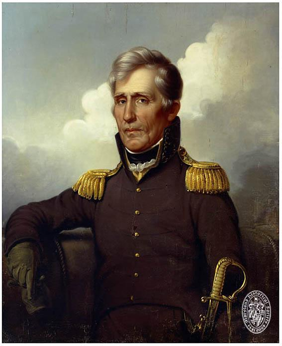 Andrew Jackson. Oil on canvas by Rembrandt Peale, 1819.